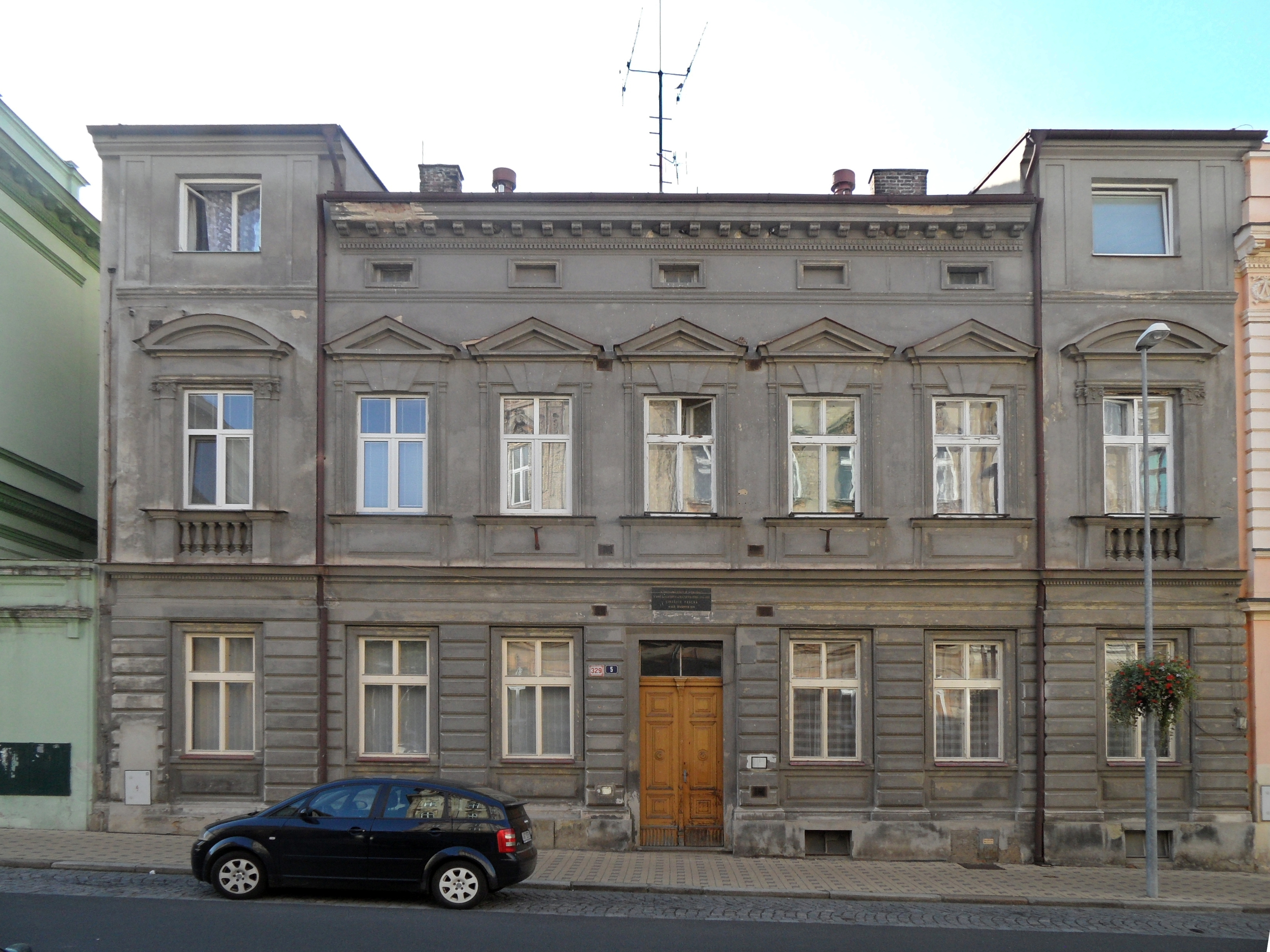 Čáslav, painter Jindřich Prucha: House with Memorial Plaque (Husova 329/5). Kutná Hora District, the Czech Republic.